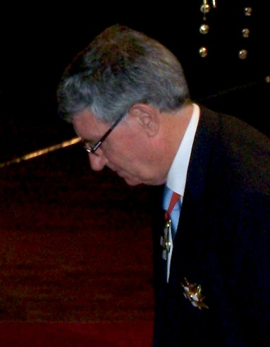 Sir Paul Callaghan